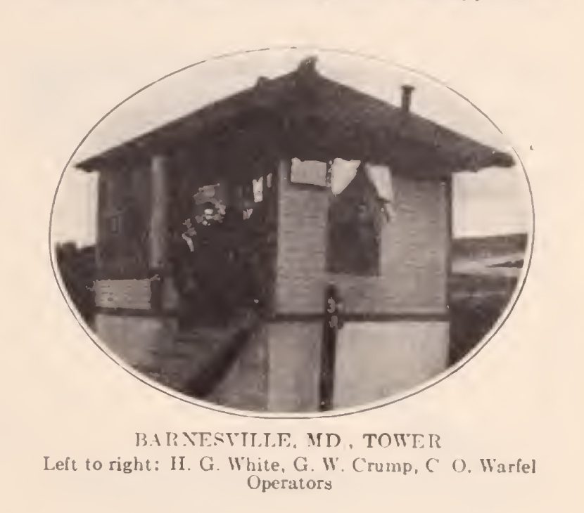 Photograph of Railroad Tower in Barnesville, Maryland, that appeared in Baltimore & Ohio Employes Magazine, April 1914, Vol. 02 No. 07, Page 89